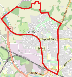 Map of the Worksop North ward of Bassetlaw. This map may be incomplete, and may contain errors. Don't rely solely on it for navigation.